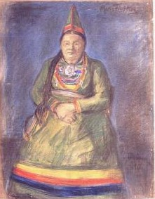 Sami woman "Marie Finskog" painted by Astri Aasen (1875-1935) during the first Sami congress in Trondheim 1917